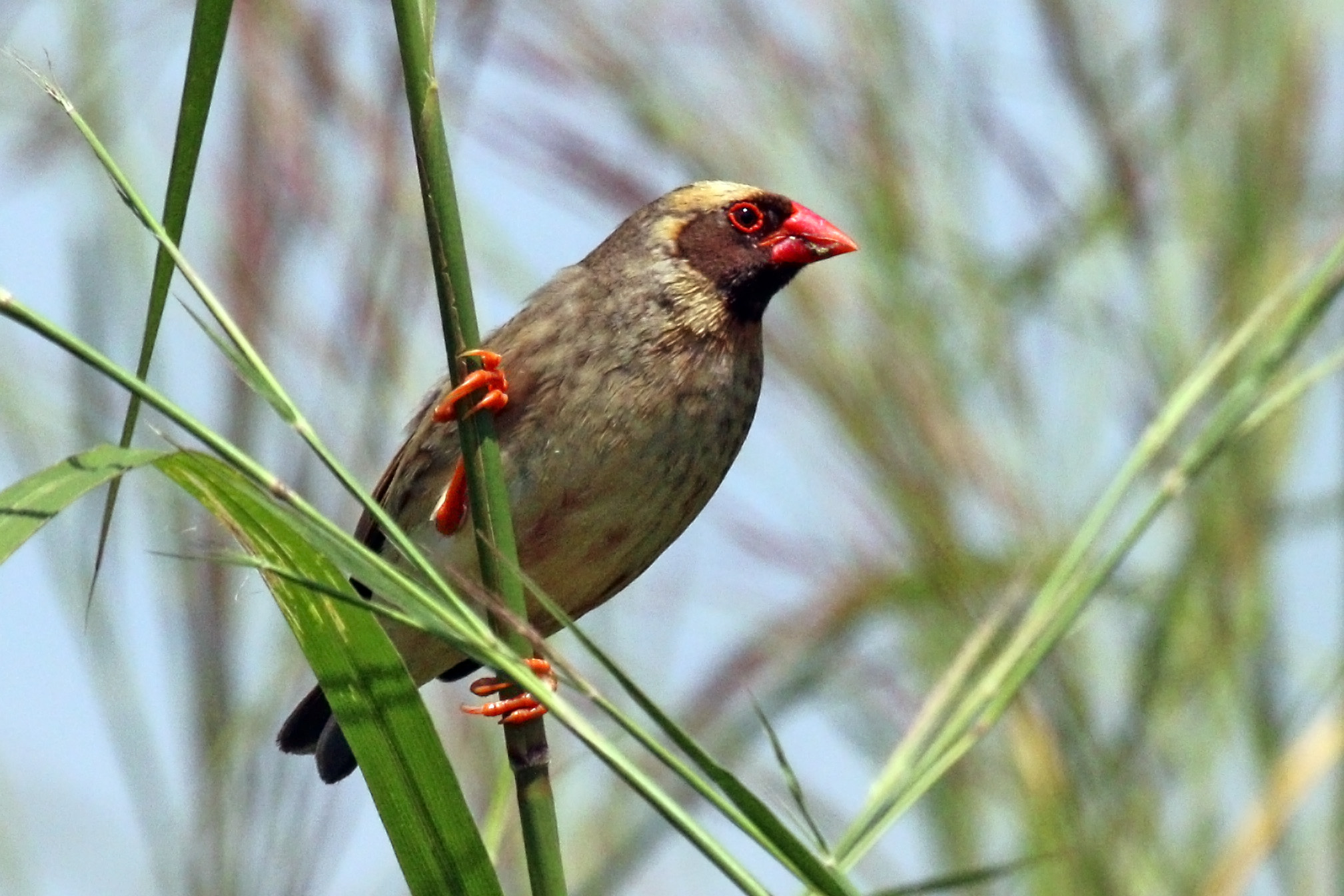 Red-billed quelea (Quelea quelea aethiopica) male breeding plumage yellow, Kyambura Gorge, Uganda